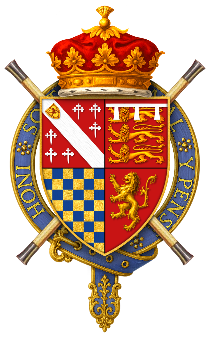 Coat of Arms of Miles Fitzalan-Howard, 17th Duke of Norfolk, KG, GCVO, CB, CBE, MC, DL